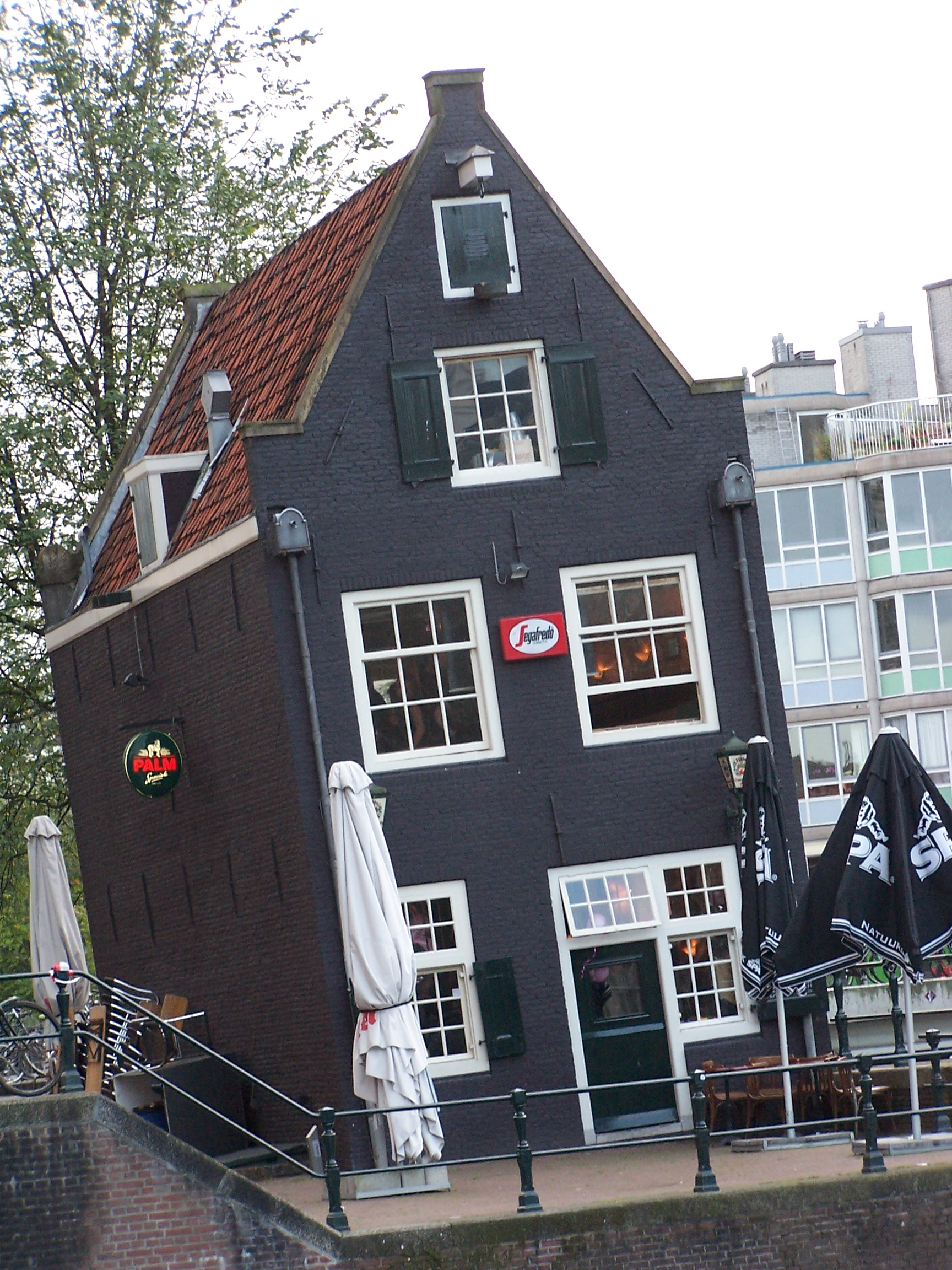 Jodenbreestraat 1 (“De Sluyswacht”)